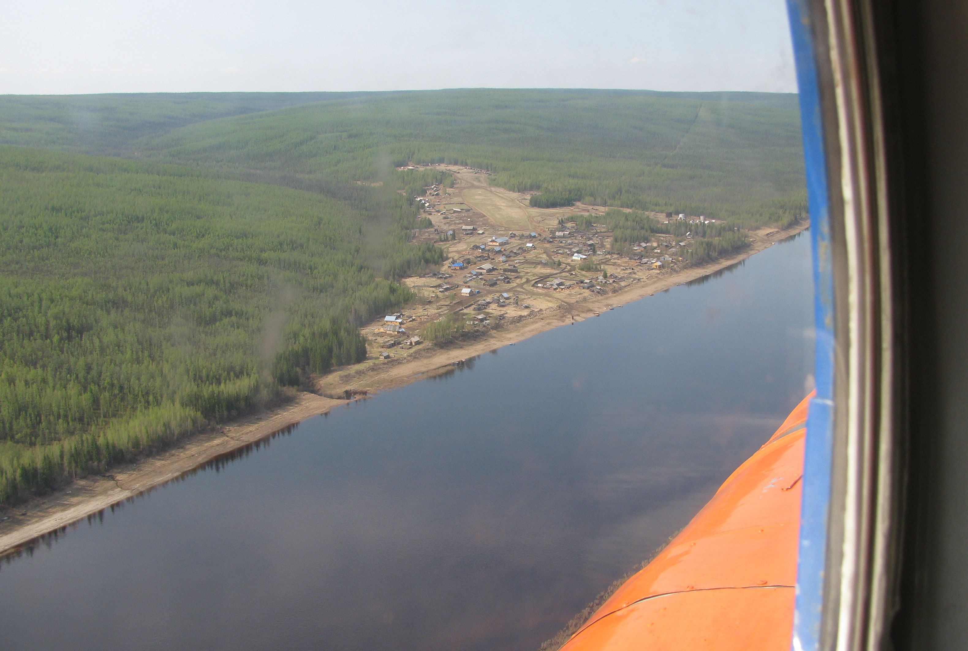 Osharovo settlement on the Podkamennaya Tunguska River, view from a helicopter (Evenkiysky District, Krasnoyarsk Krai, Russia)